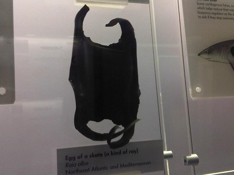 Bottlenose skate, spearnose skate or white skate (Rostroraja alba) egg case at the Natural History Museum in London, England.